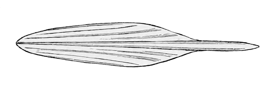 Histioteuthis reversa gladius